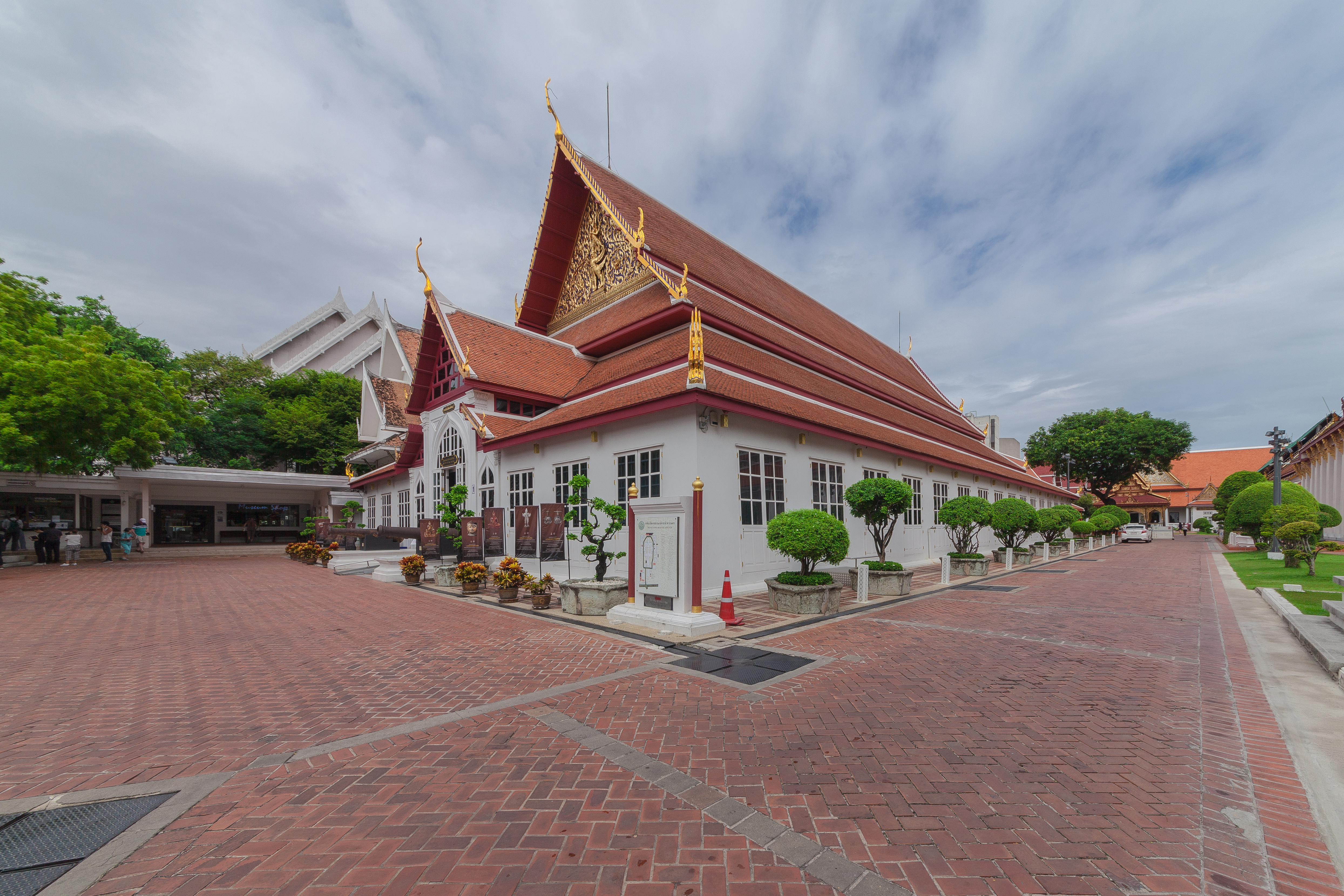 Siwamok Phiman (ศิวโมกขพิมาน), a royal hall within the Front Palace, Bangkok, Thailand.